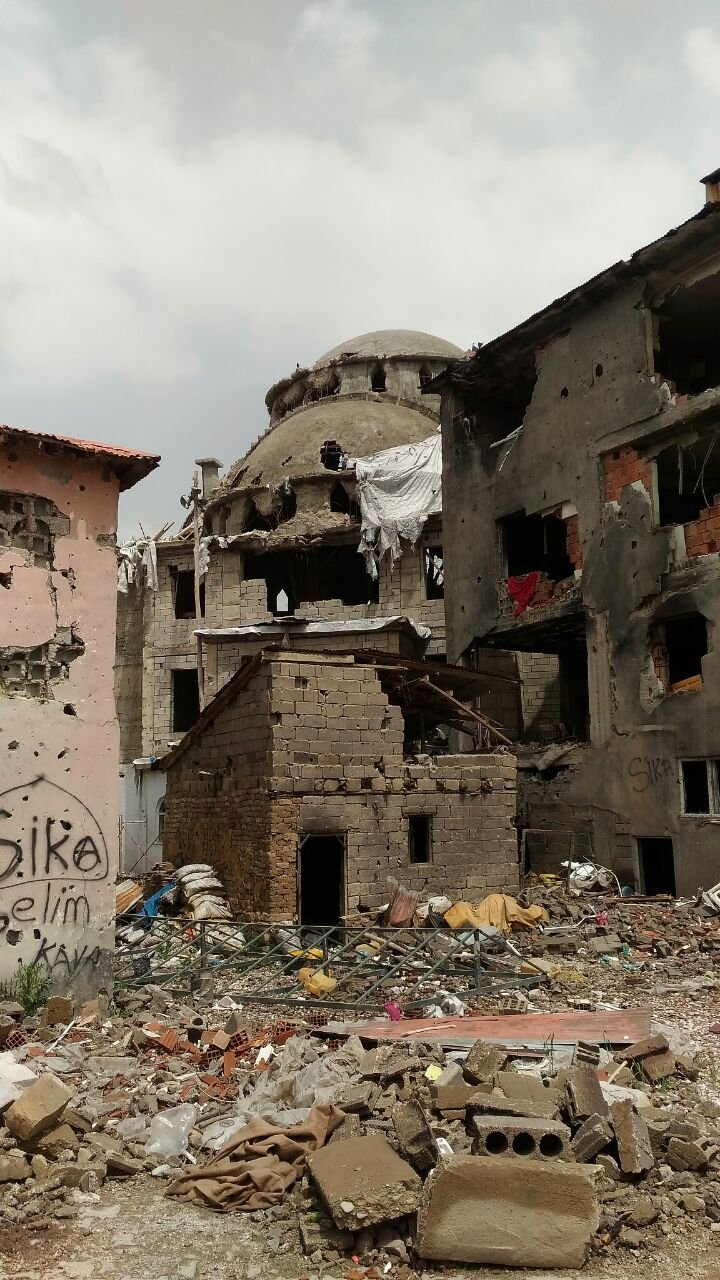 Hakkari, Yüksekova. The mosque was destroyed after Turkey's military operation. A Mosque